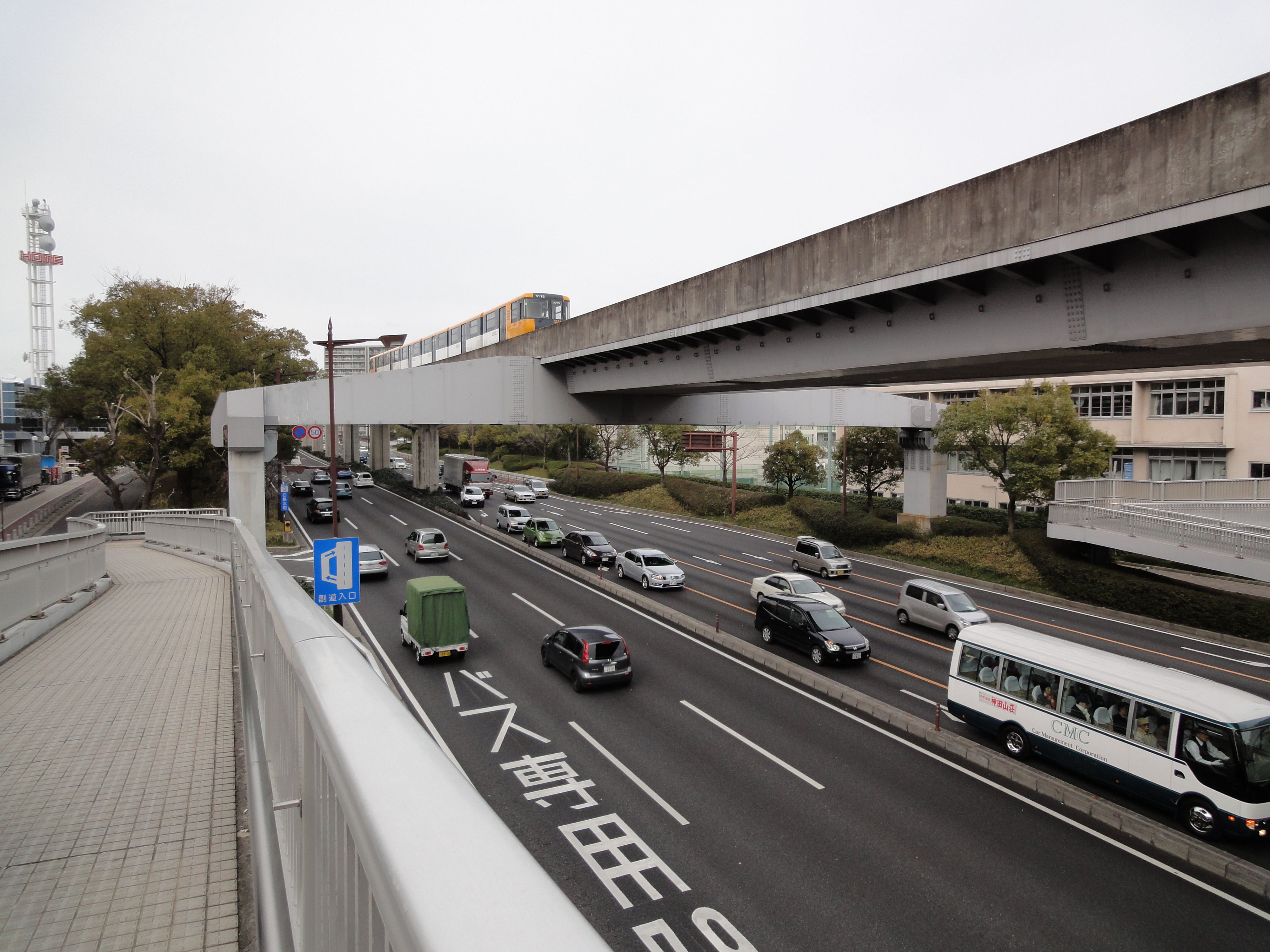 Japan Route54(Gion Shindo) and Astram Line, from Hakushima Station, Asa-minami ward, Hiroshima city, Japan